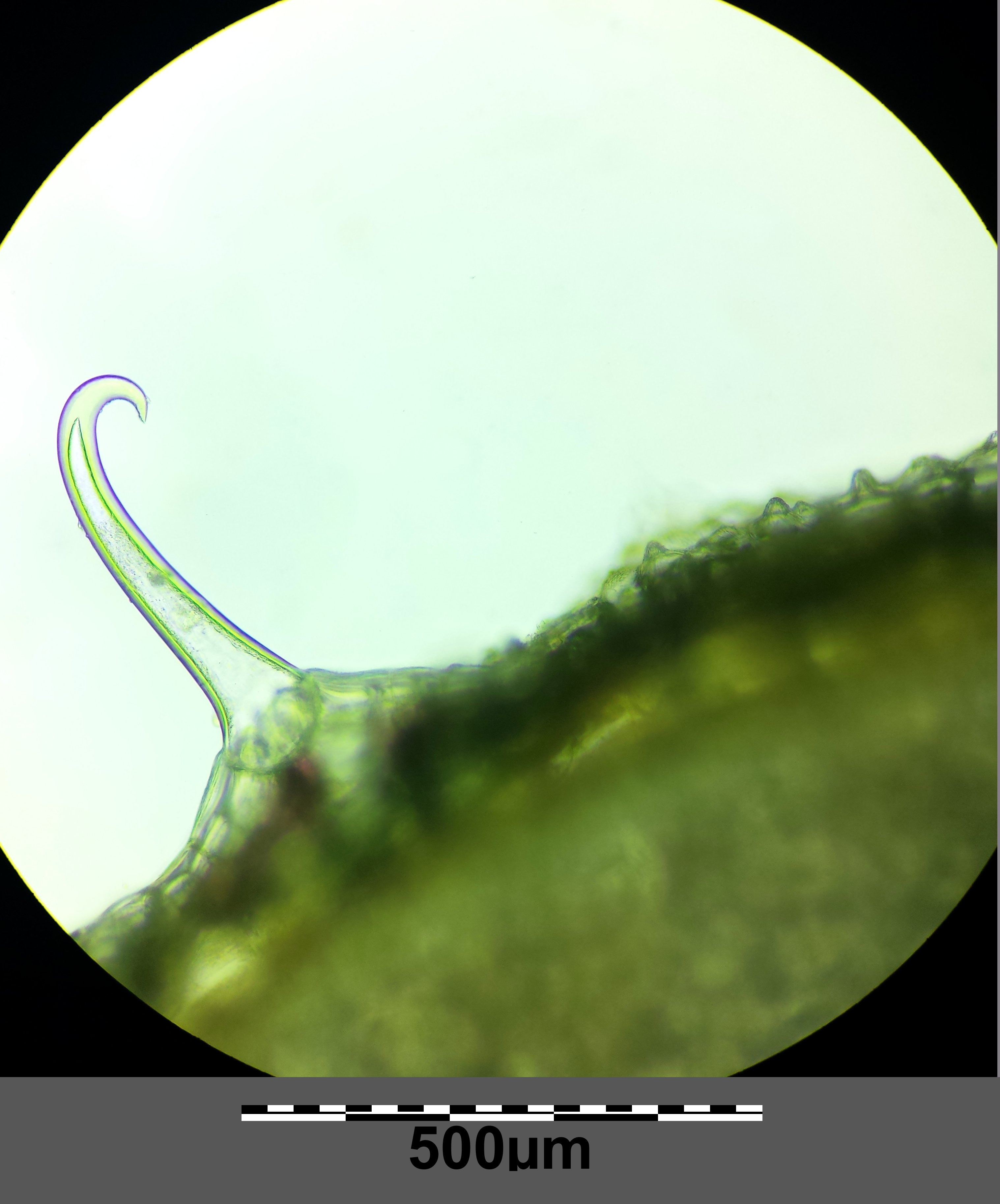 Surface of fruit with hooked seta and papillae Taxonym: Galium aparine ss Fischer et al. EfÖLS 2008 ISBN 978-3-85474-187-9 Location: bei Obergänserndorf , district Korneuburg, Lower Austria - ca. 290 m a.s.l. Habitat: border of a field